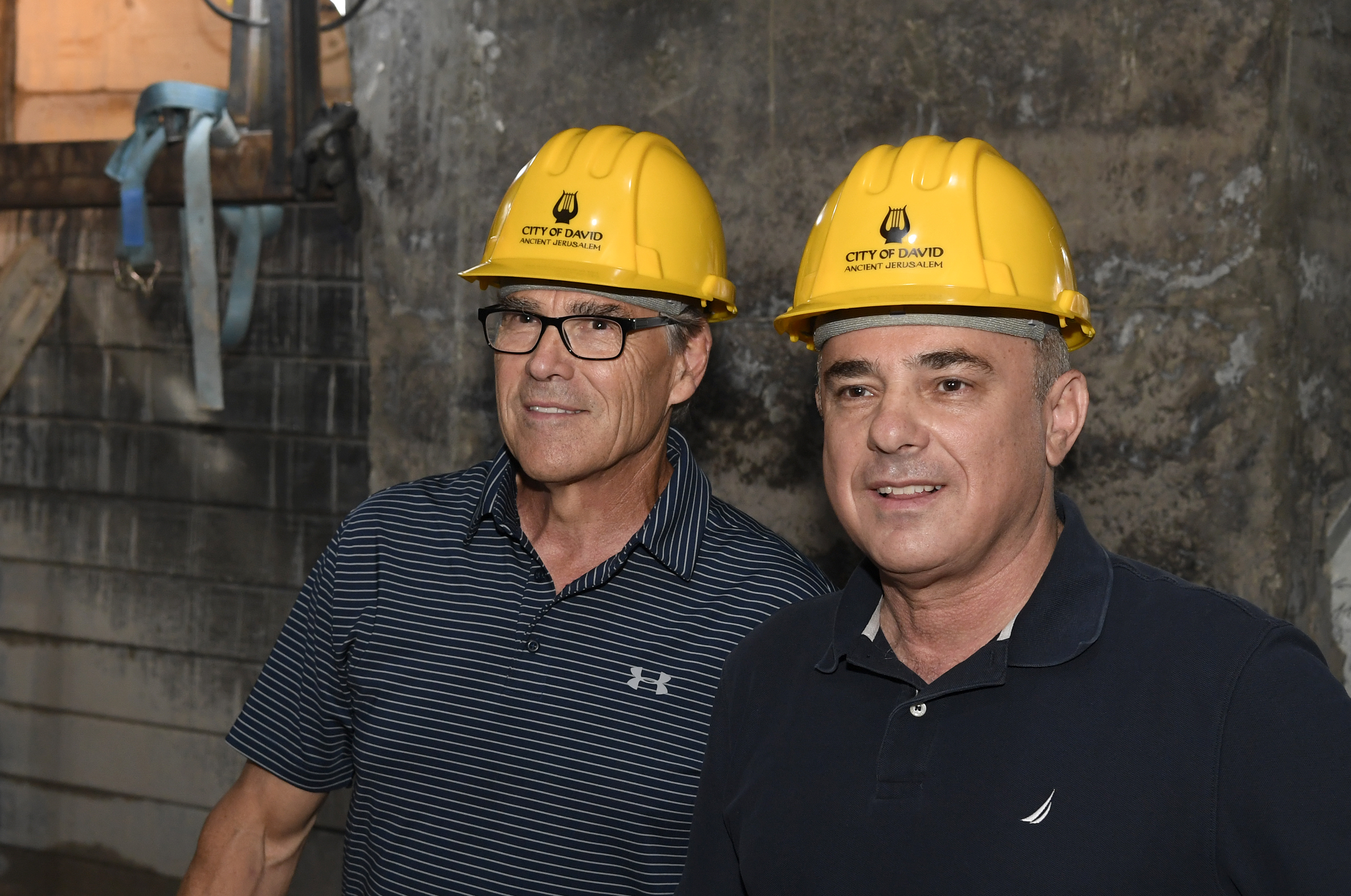 U.S. Secretary of Energy Rick Perry, Israeli Minister of Energy Yuval Steinitz and U.S. Ambassador to Israel David Friedman tour the City of David archeological park in Jerusalem, July 22, 2019. Mrs. Perry and Mrs. Friedman joined their spouses on this tour. Photo credit: Matty Stern/U.S. Embassy Jerusalem Rick Perry visit to Jerusalem, July 2019